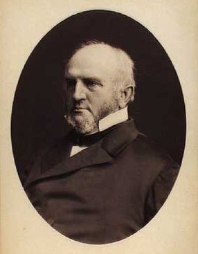 Danish-German landowner and farmer Edward Tesdorph (1817-1889)